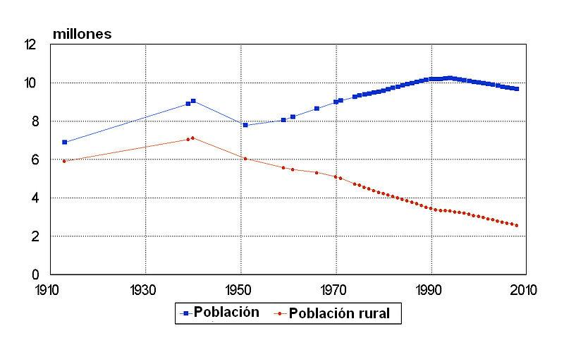 Belarus' population and rural population (1913-2008).